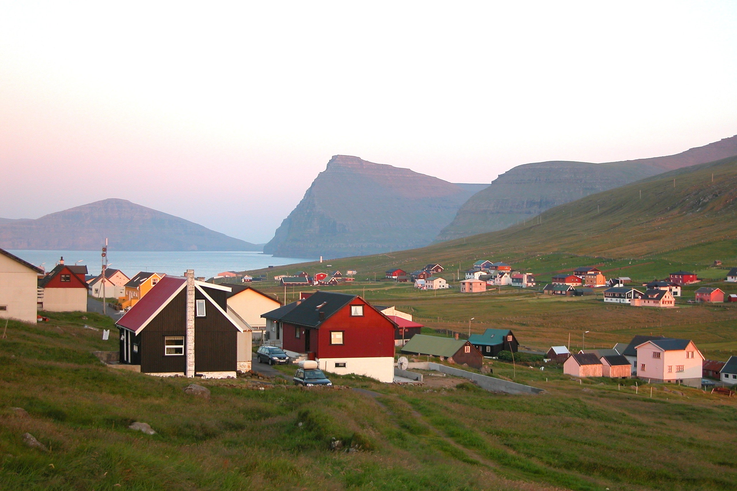 Viðareiði on Viðoy, Faroe Islands. View westwards on Svínoy